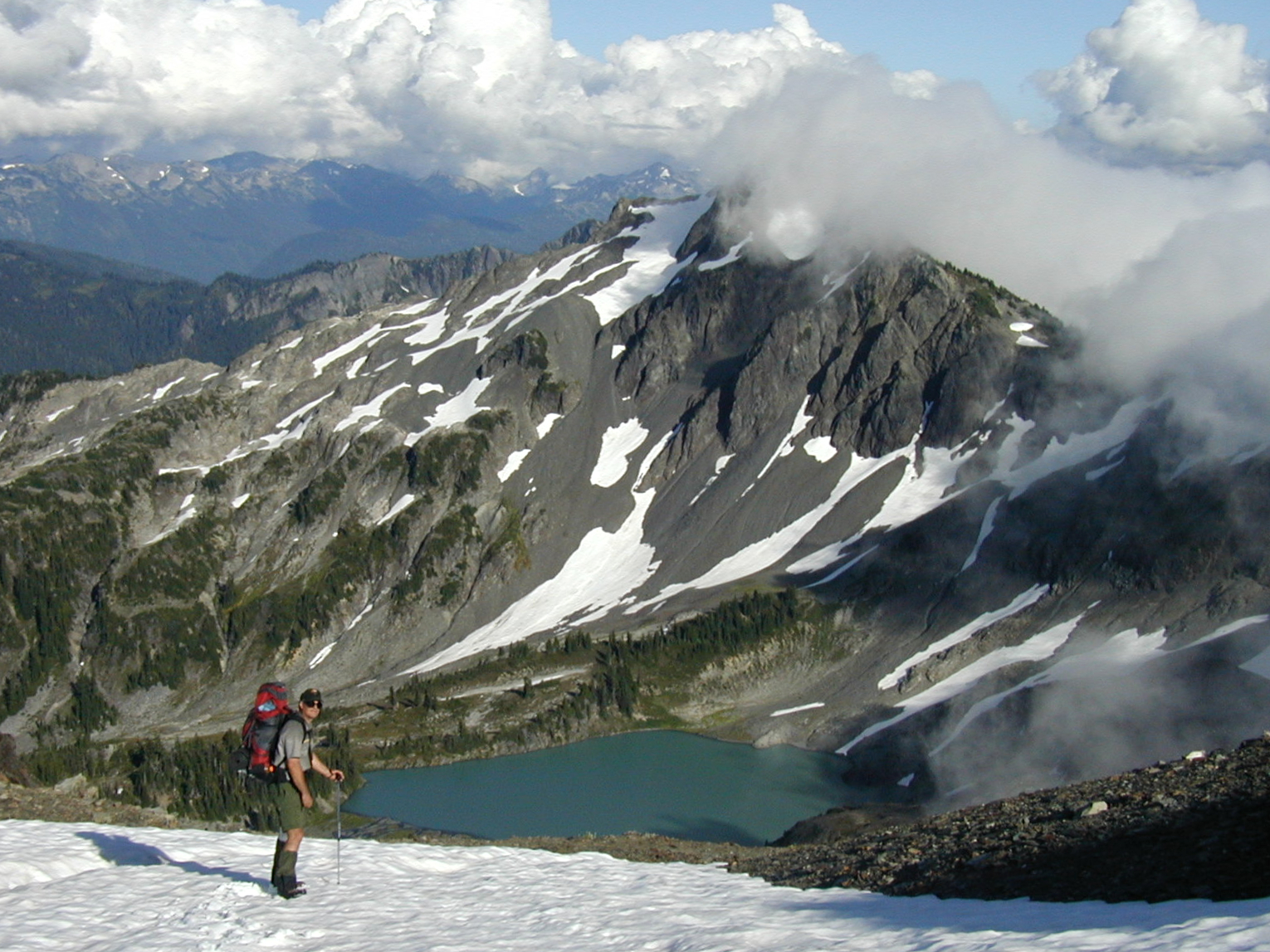 Stephen Basin Lake with Stephen Peak partially obscured